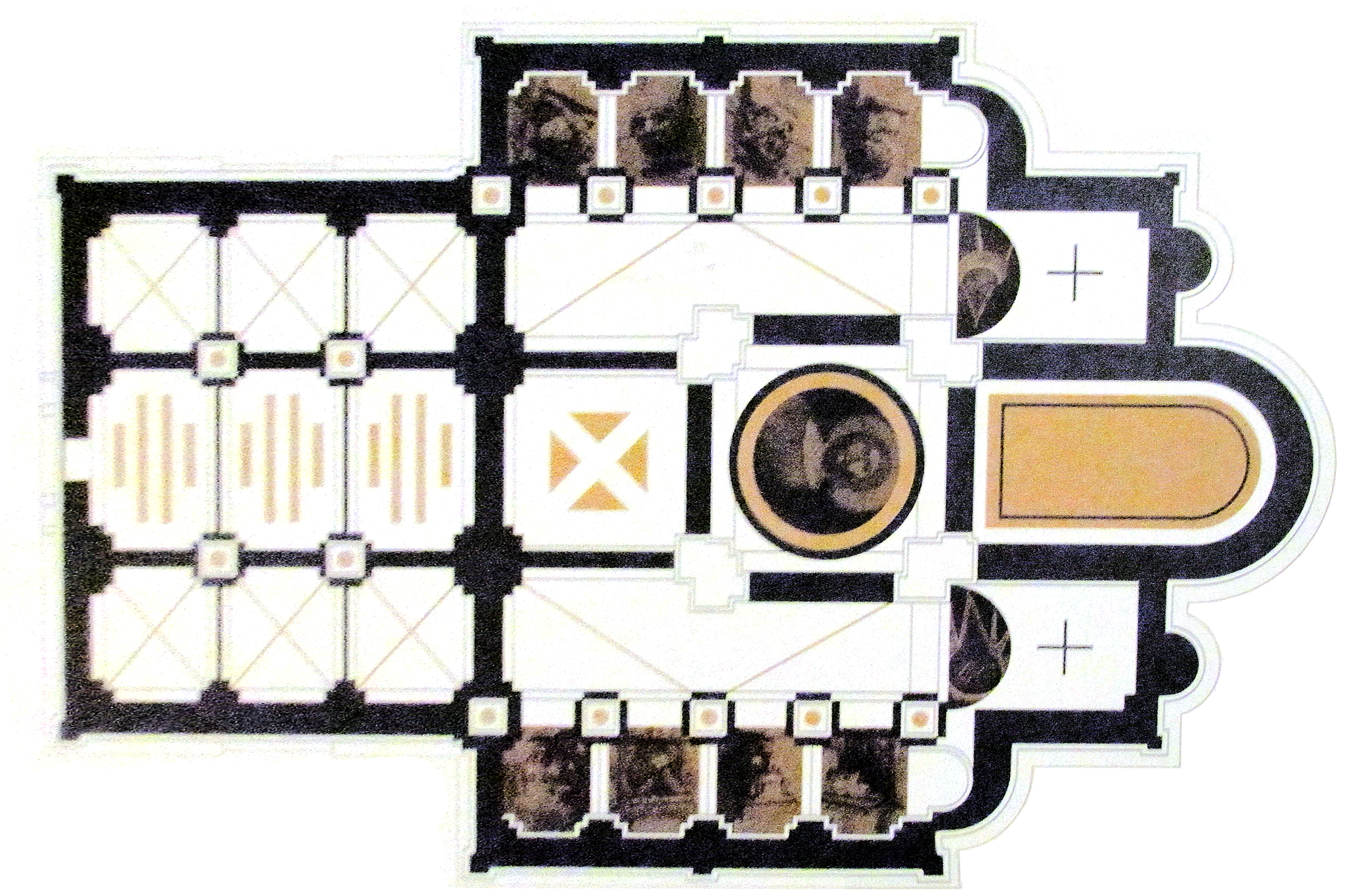 Layout of Veliki Decani church